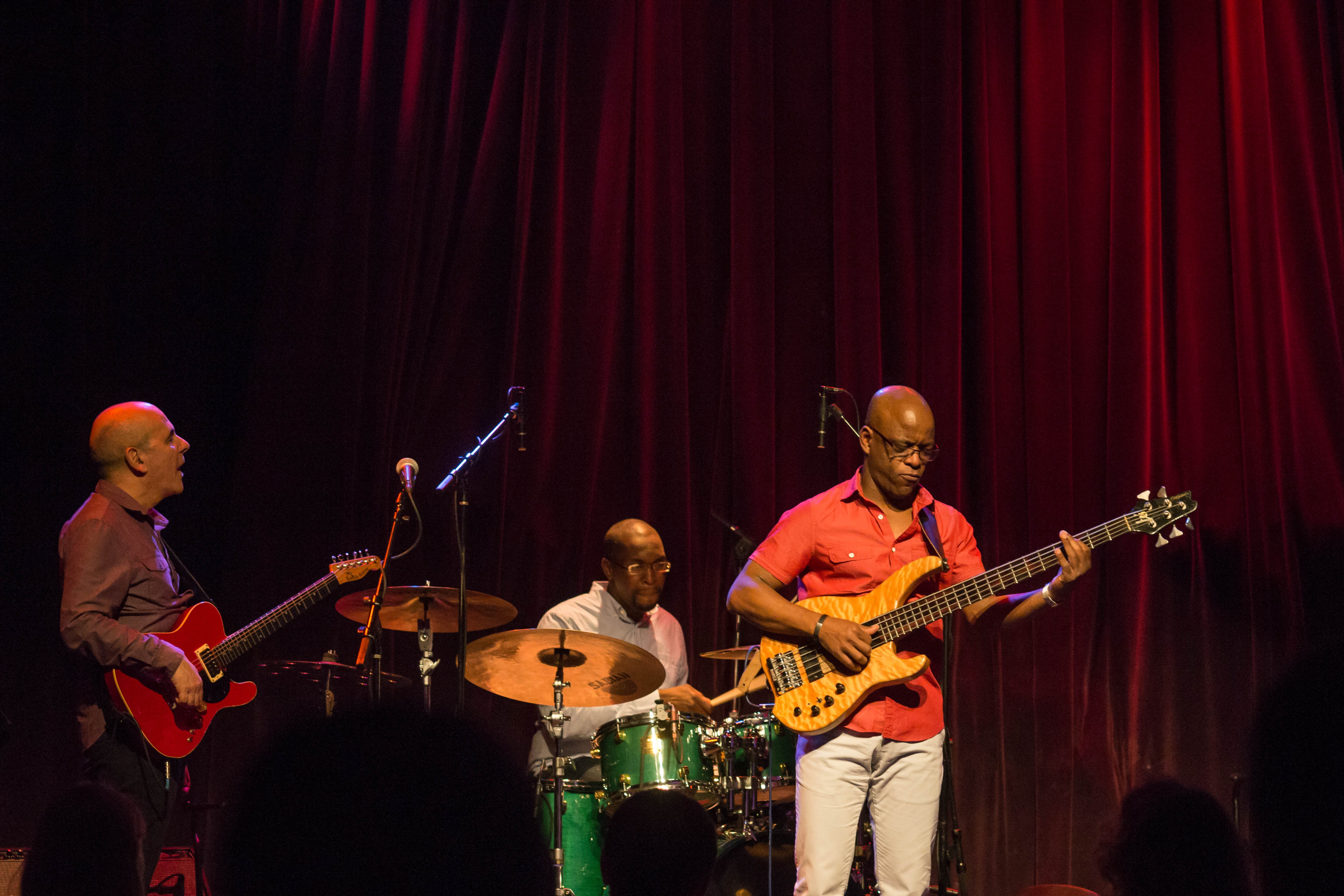 Scott Ambush bass solo.